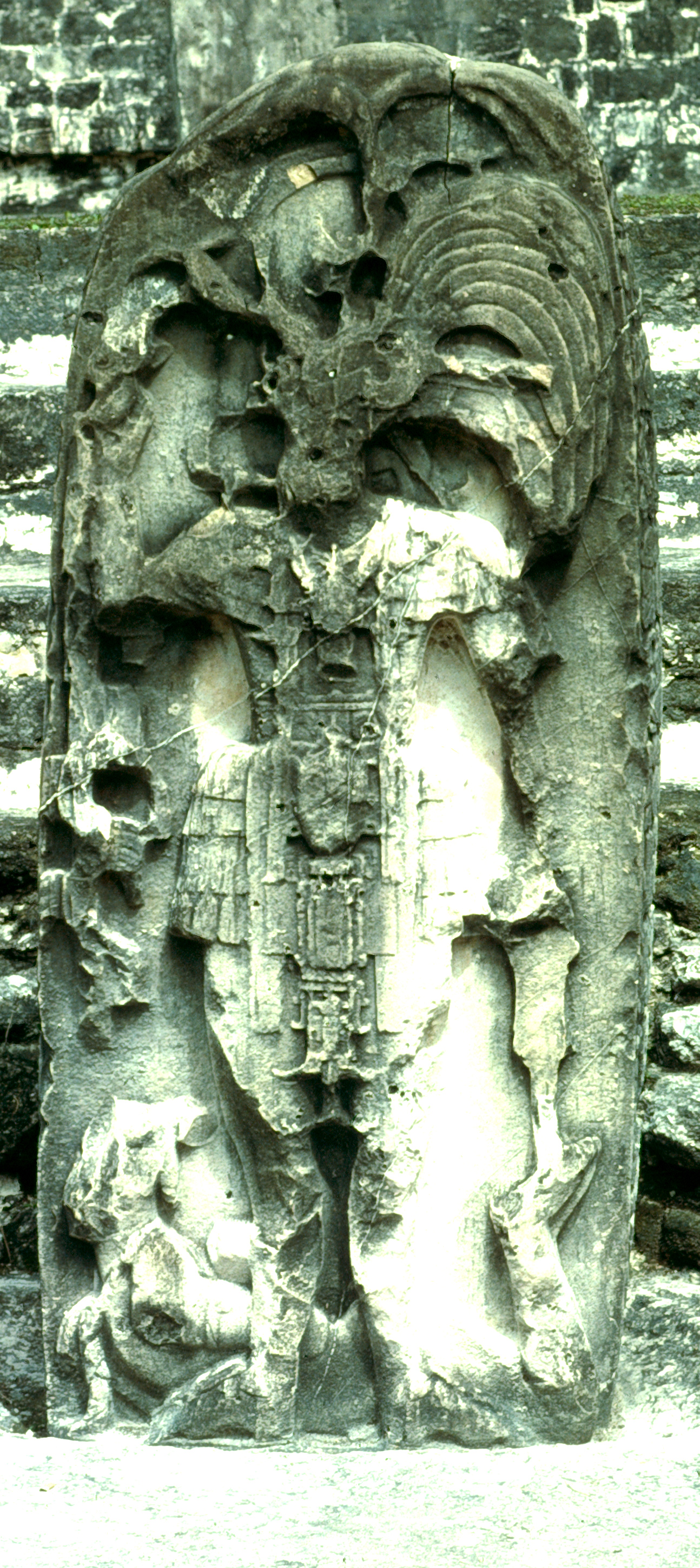 Tikal, Guatemala: Stela 10